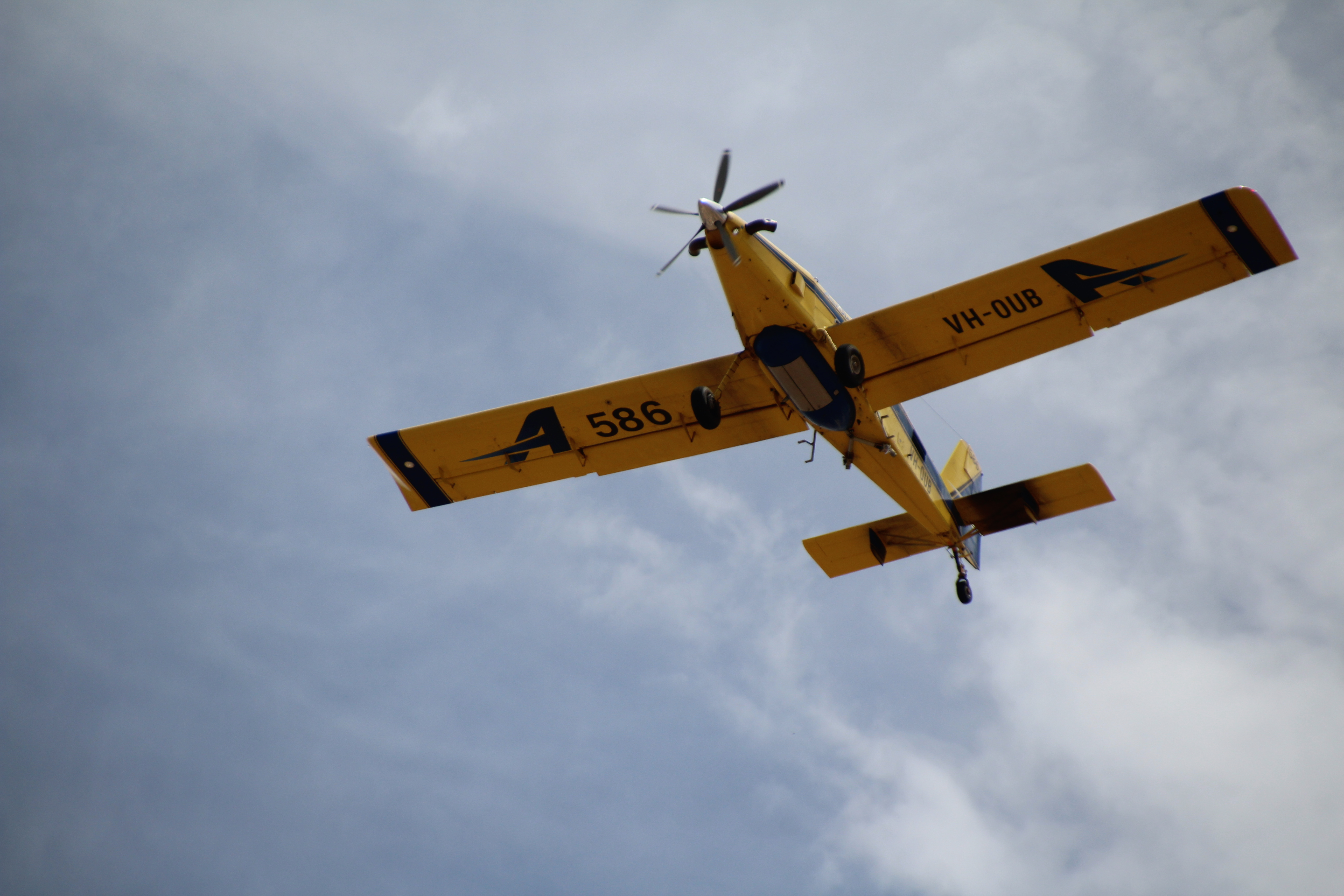 Air Tractor water bombing aircraft used in the Sampson Flat (South Australia) bush fire - January 2015